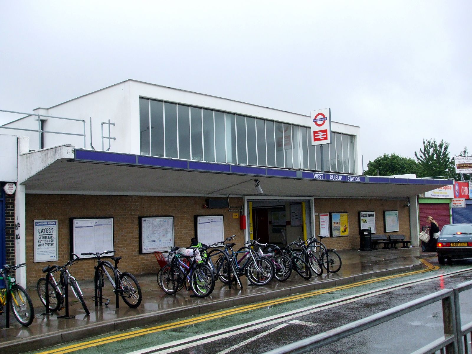 West Ruislip station, served both by London Underground and Chiltern Railways